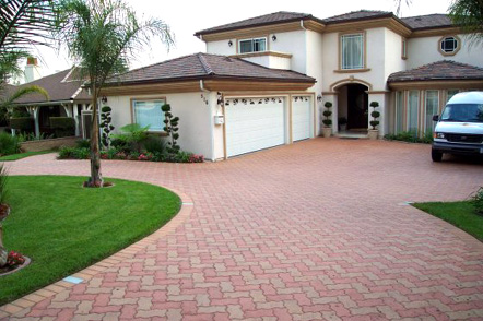 Interlocking Concrete Paving Stone Driveway